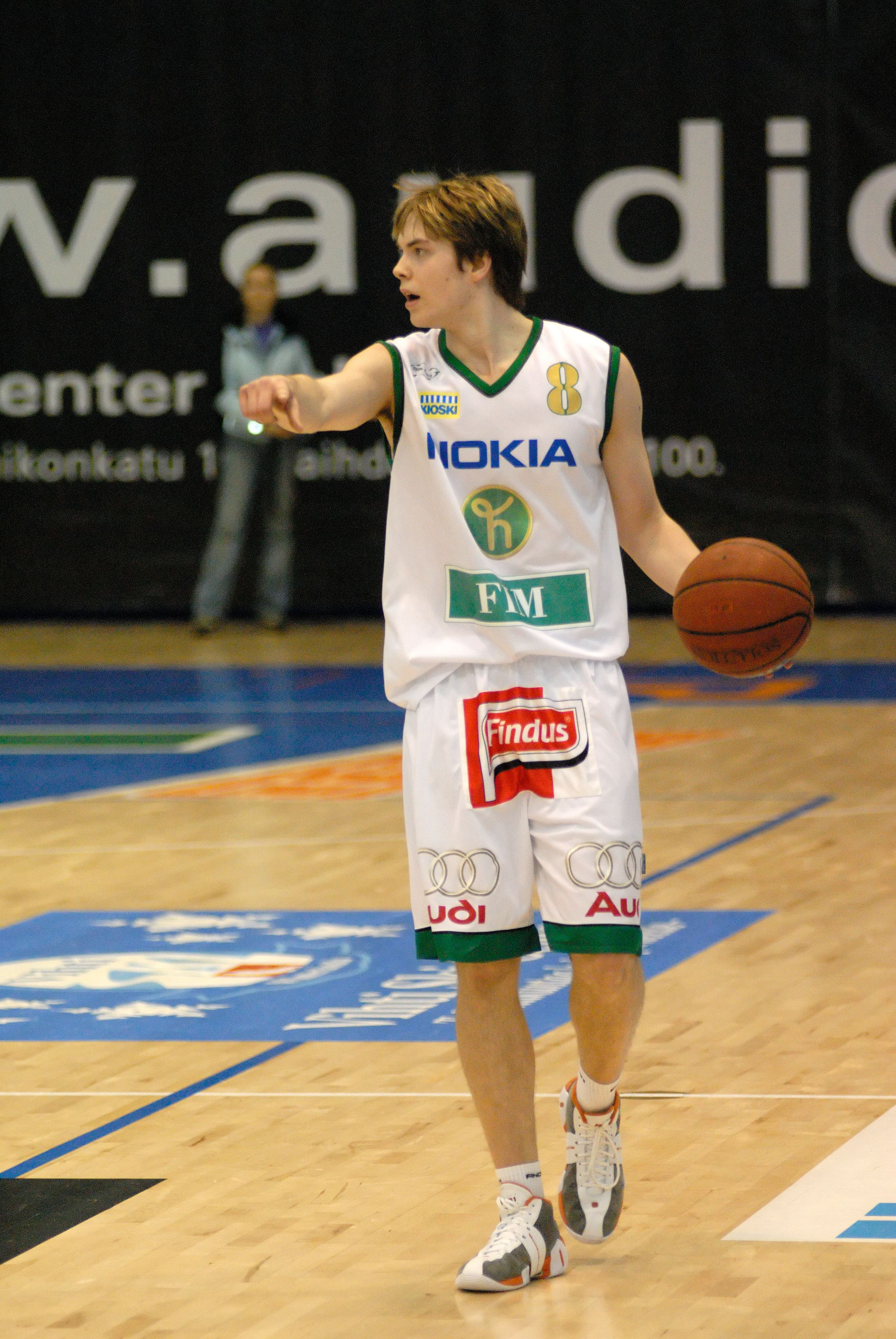 Petteri Koponen playing for Honka in Finnish Basketball League against Tampereen Pyrintö